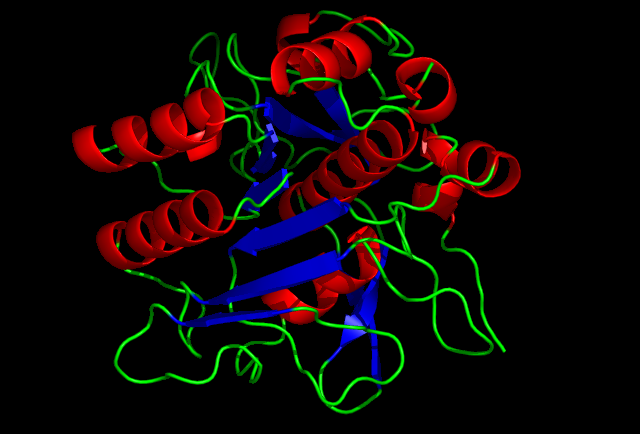 Crystal structure of Subtilisin. From PDB file 1ST2. Created with PyMol